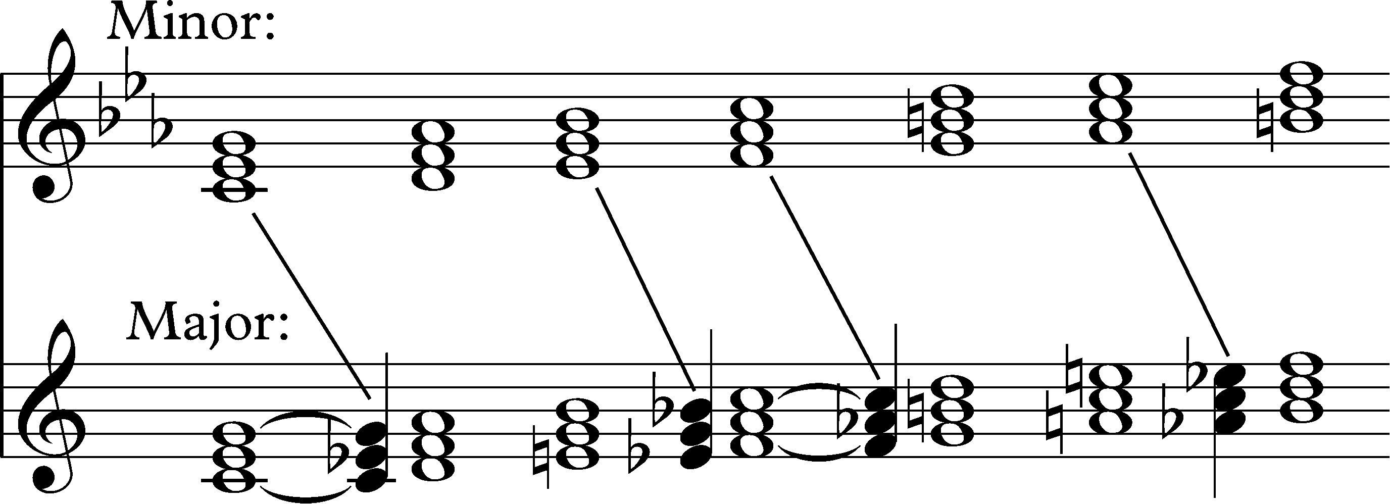 Mode mixture. The four consonant triads of the harmonic minor scale may be assimilated into the major scale or substituted for the expected major scale triads.